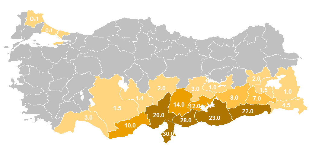 Arabic population in Turkey 2018 (including refugees from syria, iraq and lebanon)